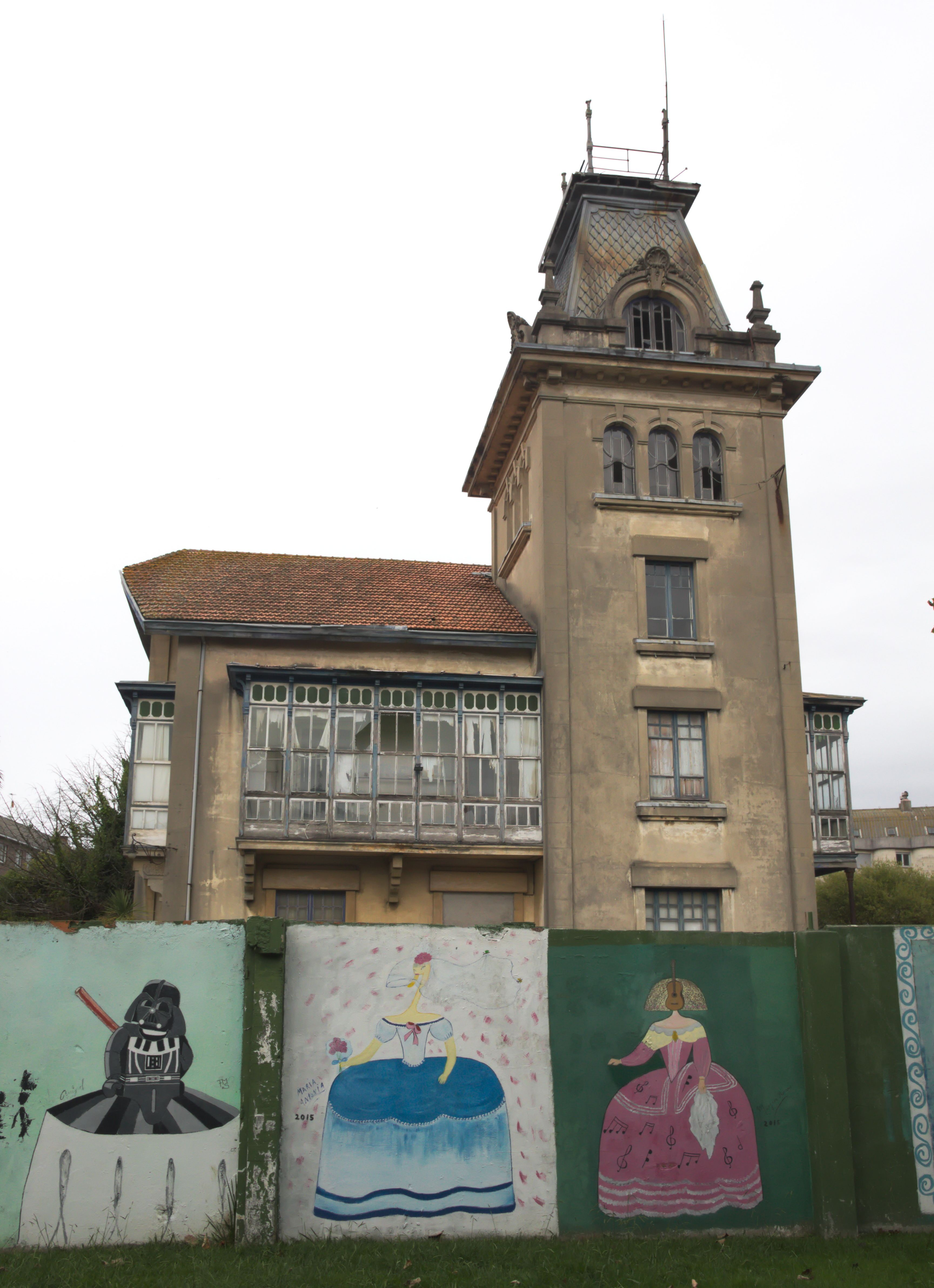 Meninas in the district of Canido, in Ferrol, Galicia, Spain.